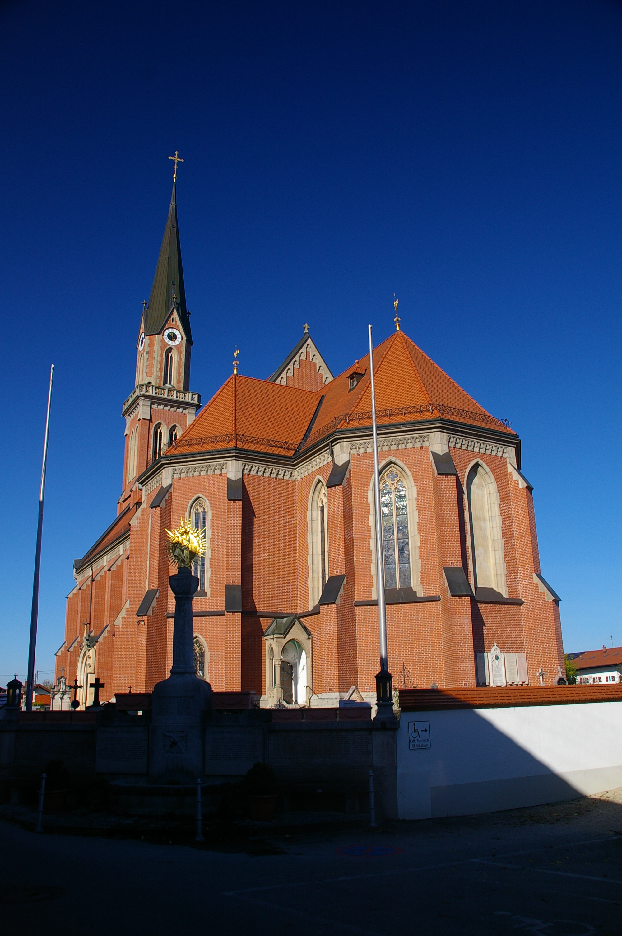 The church of St Nikolaus in Übersee from the outside.